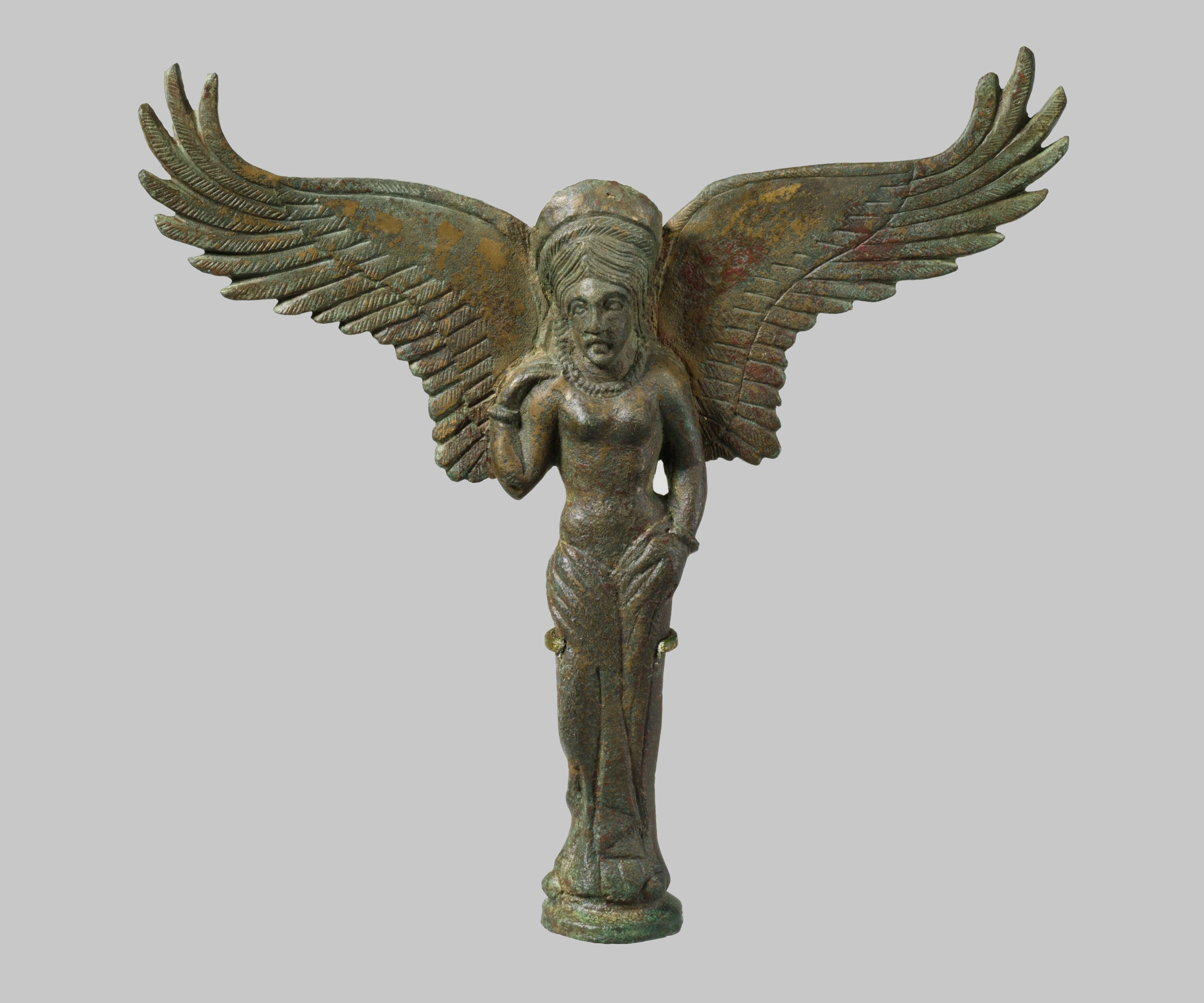 Etruscan; Handle of a patera in the form of winged goddess; Bronzes